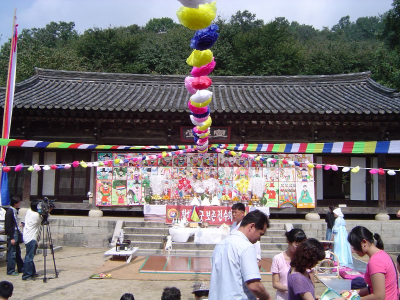 Korean Folk Village (Minsokchon), Korea